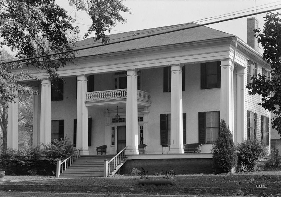 Collier-Whitt-Boone House, 905 Twenty-first Avenue, Tuscaloosa, Tuscaloosa County, AL. SOUTH ELEVATION (FRONT). Built in the Federal style and later altered to the Greek Revival style.